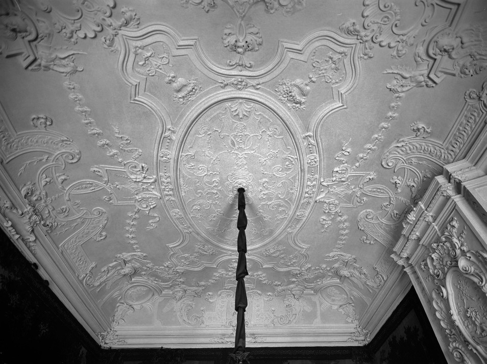 Town hall Maastricht, the Netherlands. Plastered ceiling with stucco decorations by Tomaso Vasalli in the Secretary's Chamber, 1735 (photo by G. de Hoog, 1915).